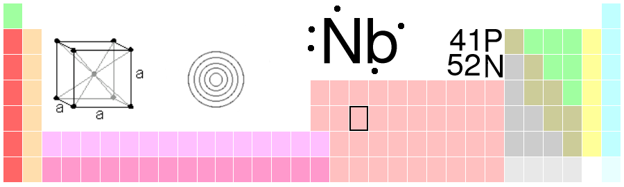 Position of niobium in the periodic table with other data about the element The scheme shows a the periodic table, and from left to right a cube representing the body-centered cubic structure of the metal followed by a simplified electron shell diagramm and a Niobium with 5 dots representig Valence electrons, the last two numbers followed by a letter are the number of Protons (41P) and the number of the neutrons (52N) in the only stable Niobium isotope. All info can be verified in the book Holleman, Arnold F.; Wiberg, Egon; Wiberg, Nils; (1985) "Niob" in (in German) Lehrbuch der Anorganischen Chemie (91–100 ed.), Walter de Gruyter, pp. 1,075–1,079 ISBN: 3110075113. and at the page 147 for the body-centered cubic structure.